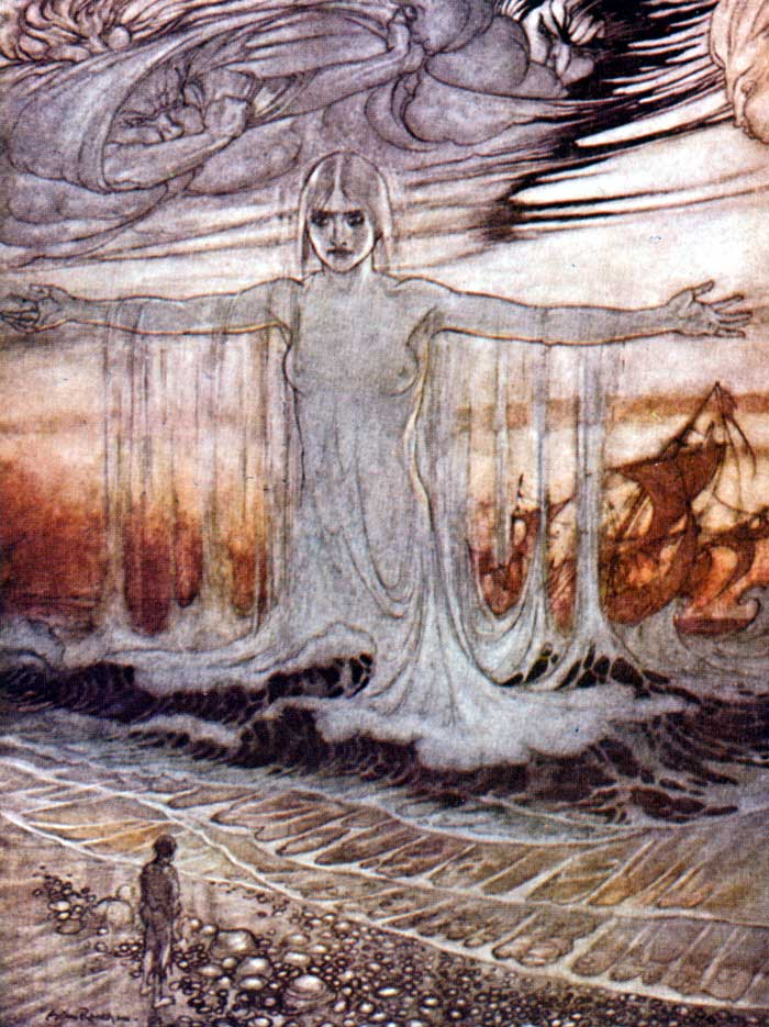 Arthur Rackham's illustration of the fable of "The Farmer and the Sea" in V.S. Vernon Jones' new translation of Aesop's Fables